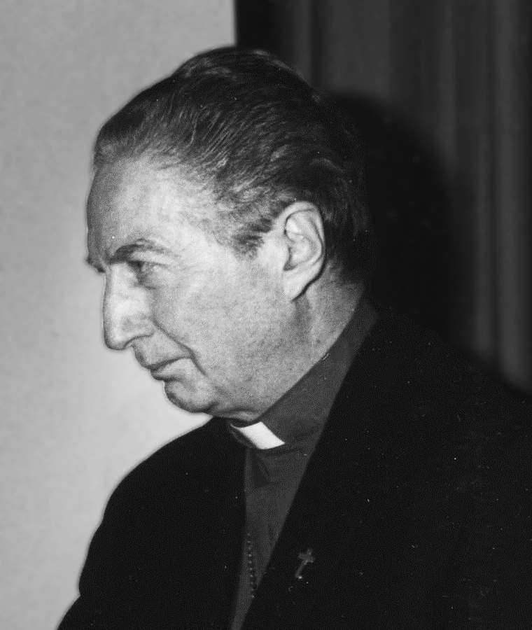 Cardinal Carlo Maria Martini at World Economic Forum Annual Meeting, 1992.